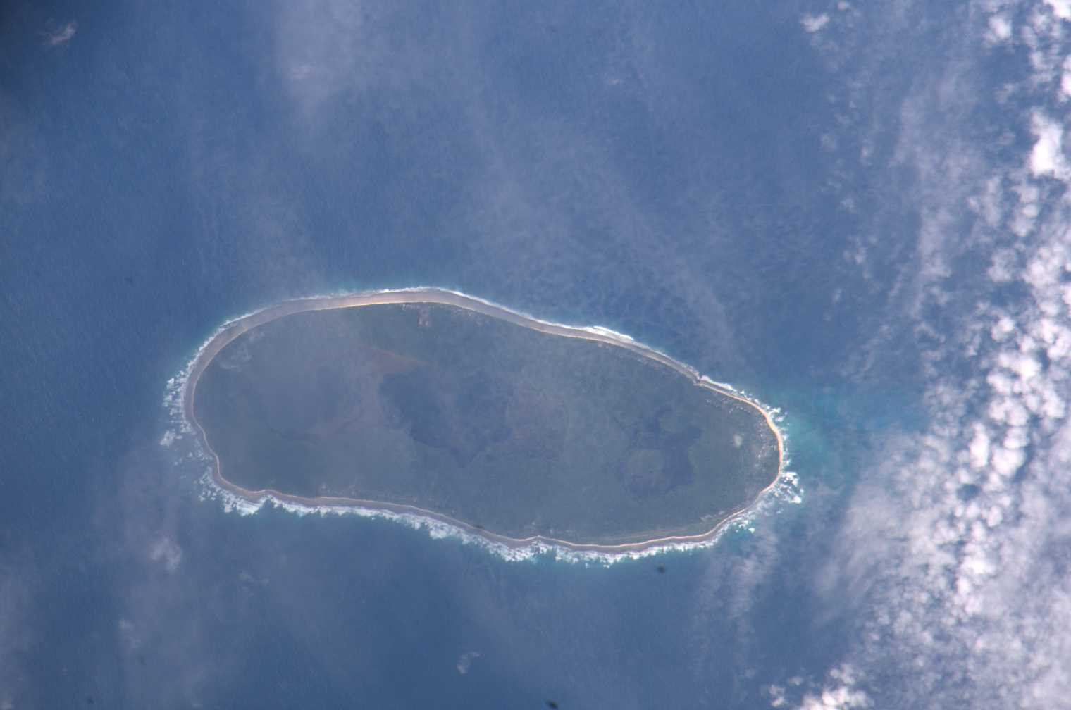 NASA astronaut image of Washington Island (Teraina) in the Pacific Ocean